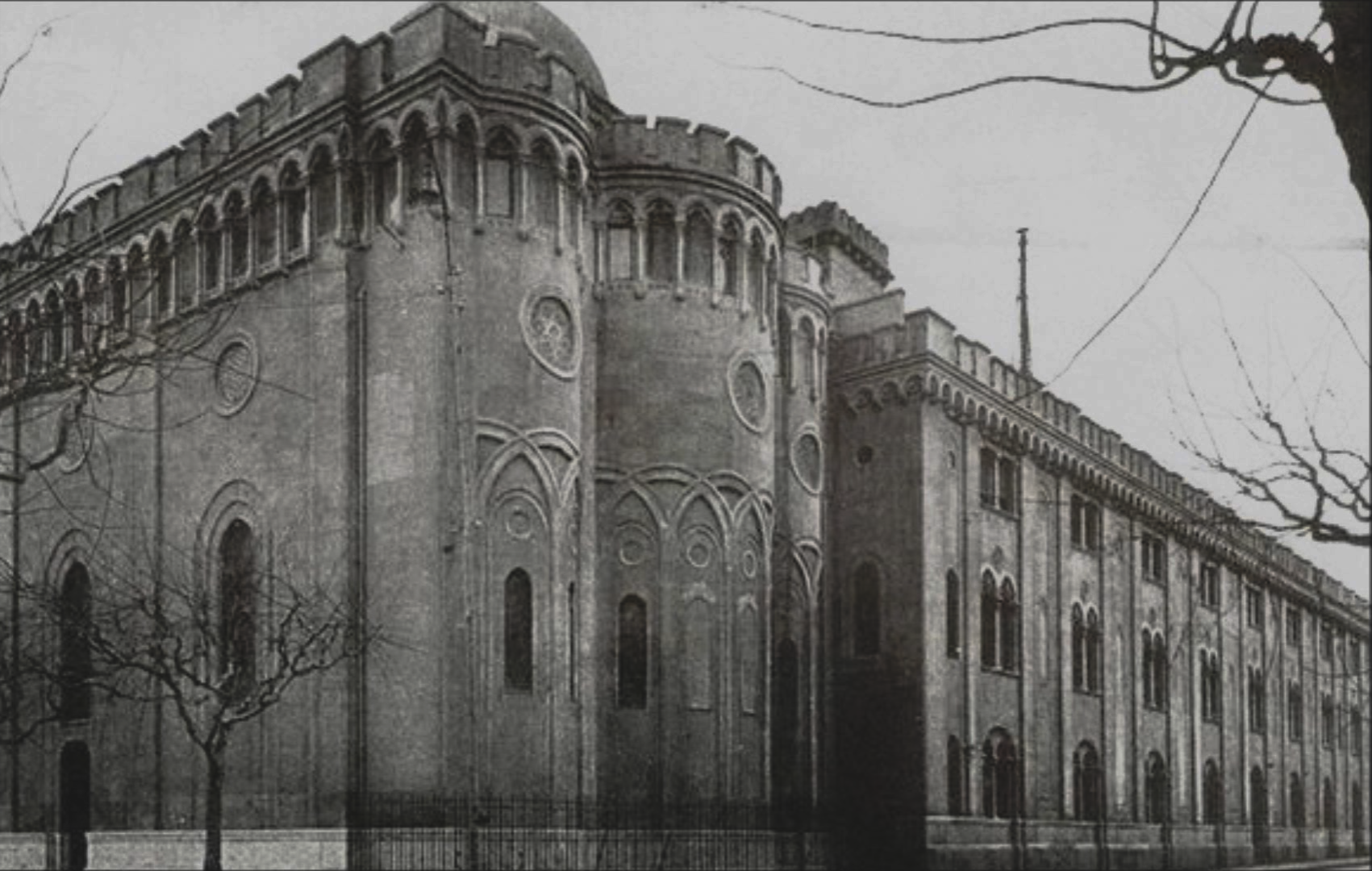 Church Messina